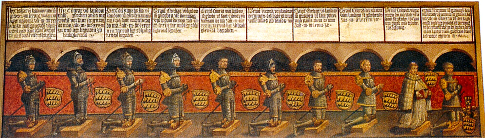 Frescoes of the Counts of Grüningen-Landau in the cloister of Kloster Heiligkreuztal